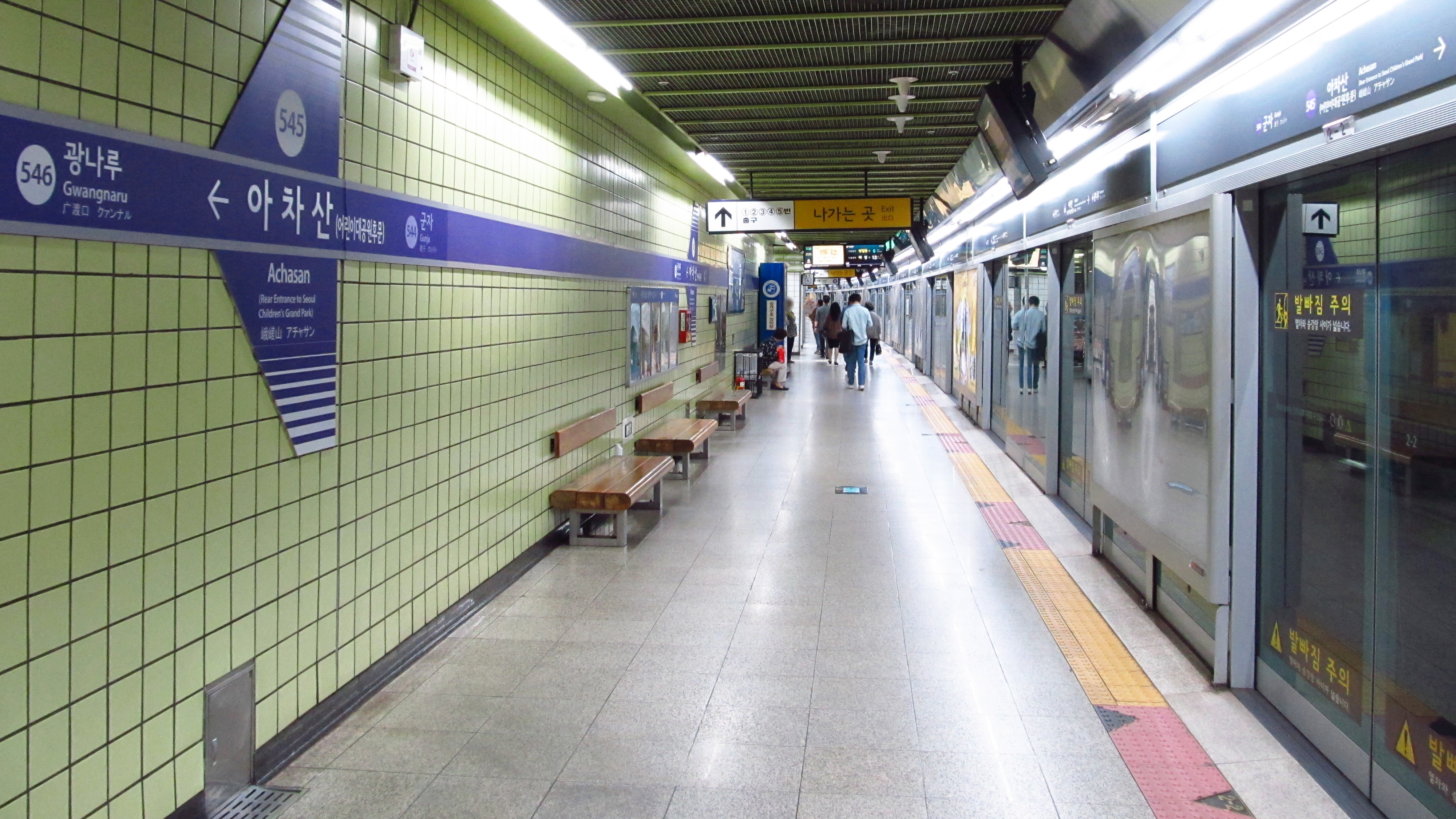 The platform at Achasan Station on Seoul Subway Line 5 in Gwangjin-gu, Seoul, Republic of Korea(South Korea)